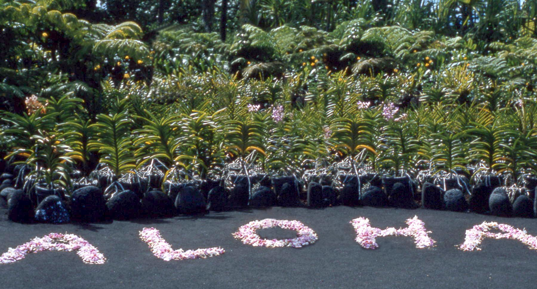 Flowers arranged to spell "ALOHA", Hilo, Hawaii.